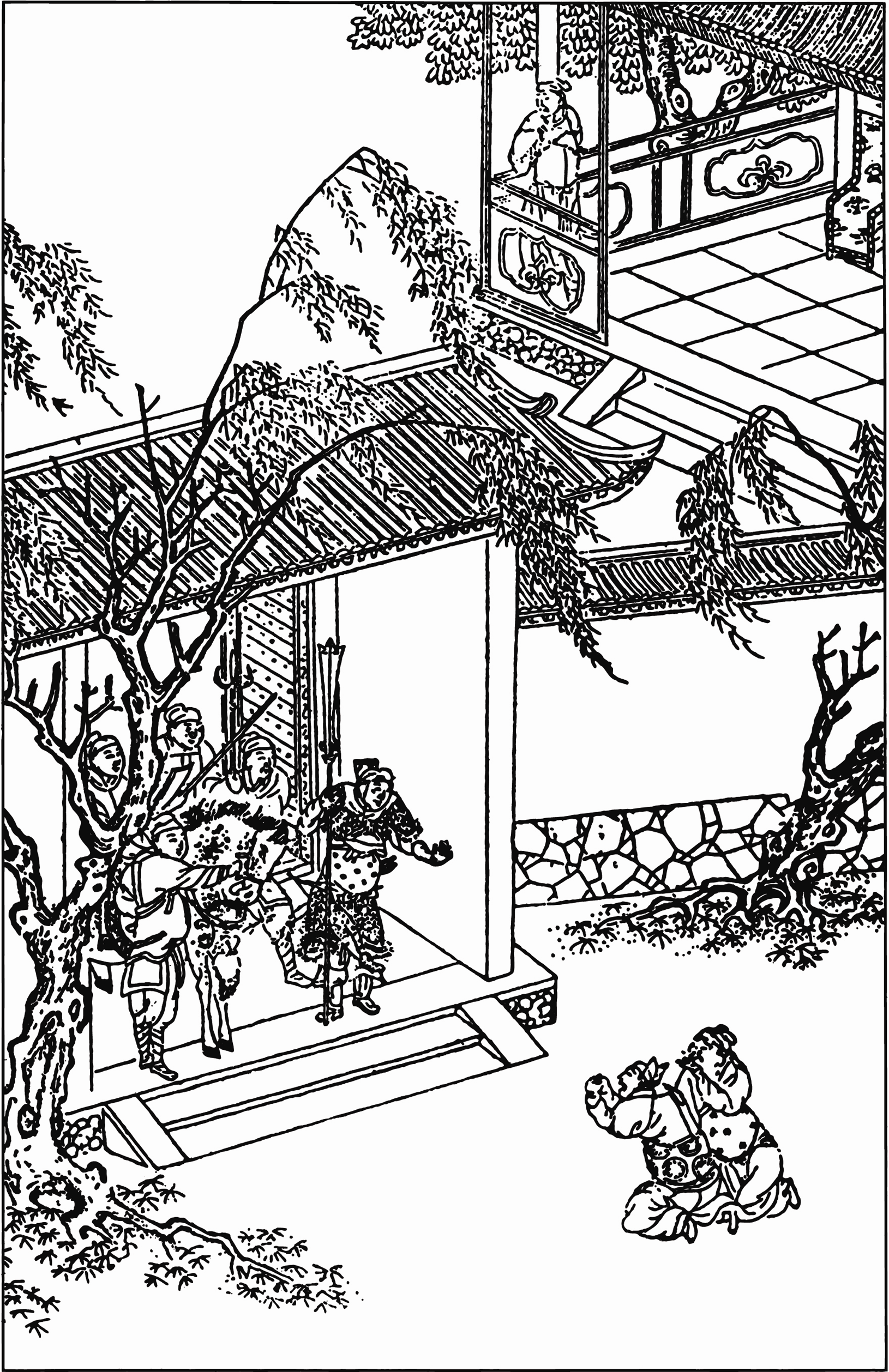 Illustration of ancient Chinese book “Outlaws of the Marsh”